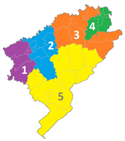 Constituencies of Doubs